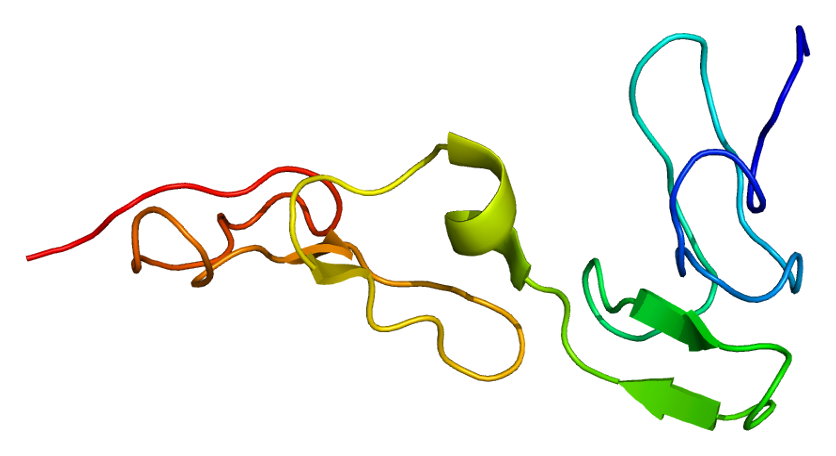 Structure of the PROS1 protein. Based on PyMOL rendering of PDB 1z6c.